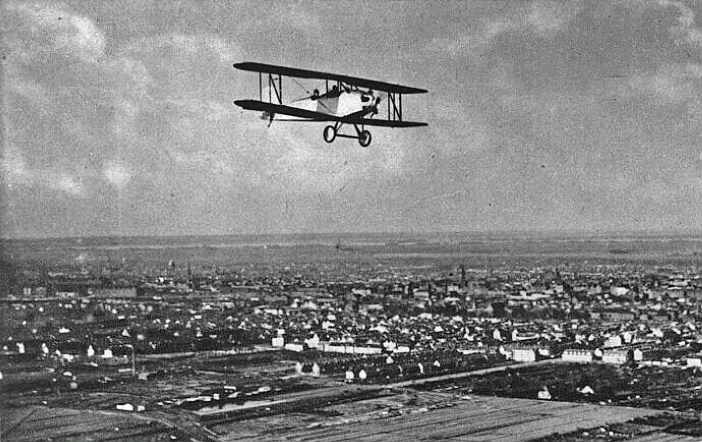 Walter NZ-60 and the Focke-Wulf S24a Kiebitz